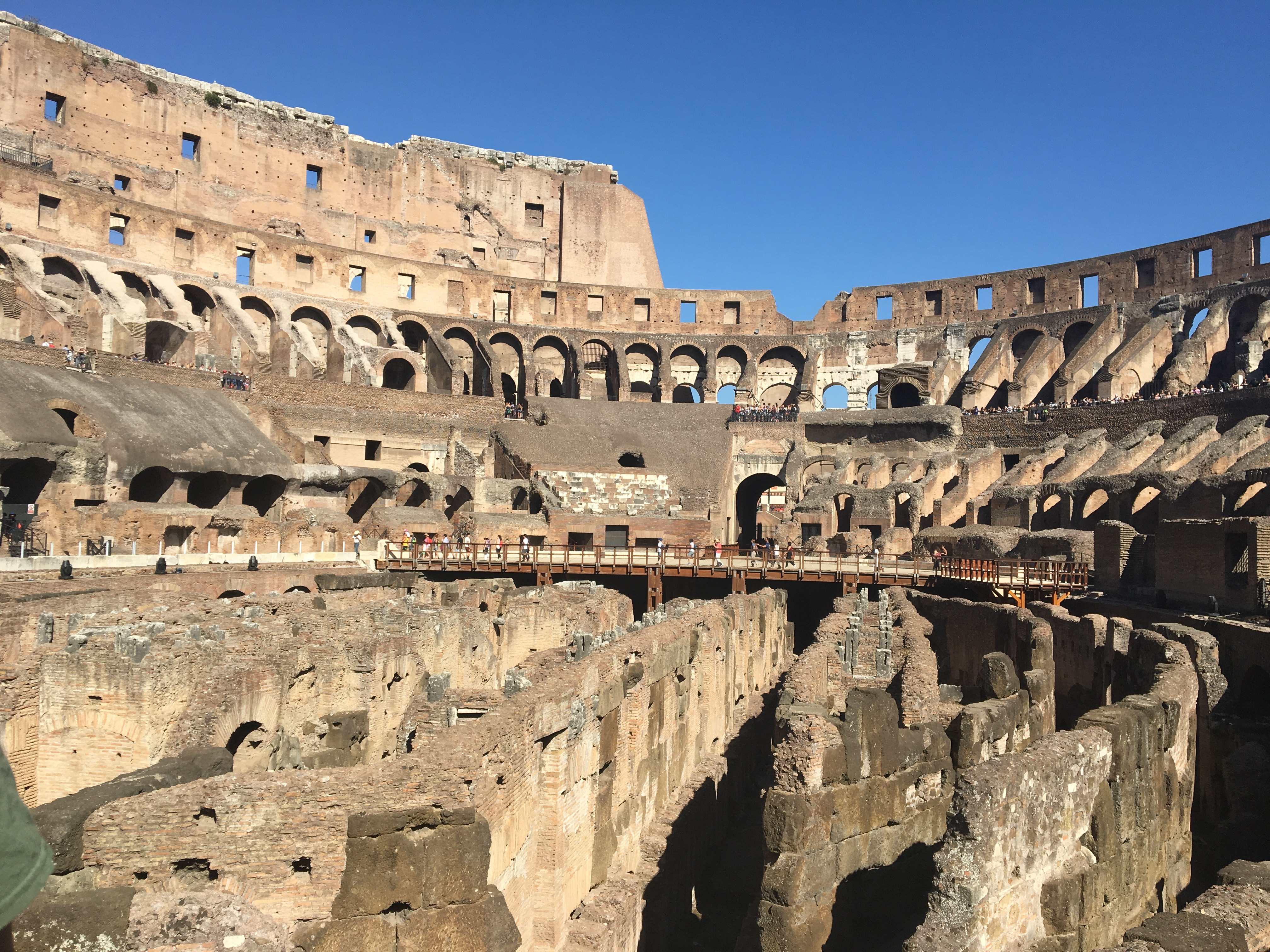 A view of the interior of the Colosseum; clearing showing the hypogeum (latin for 'underground').